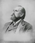 Felix Leopold Oswald (1845–1906)